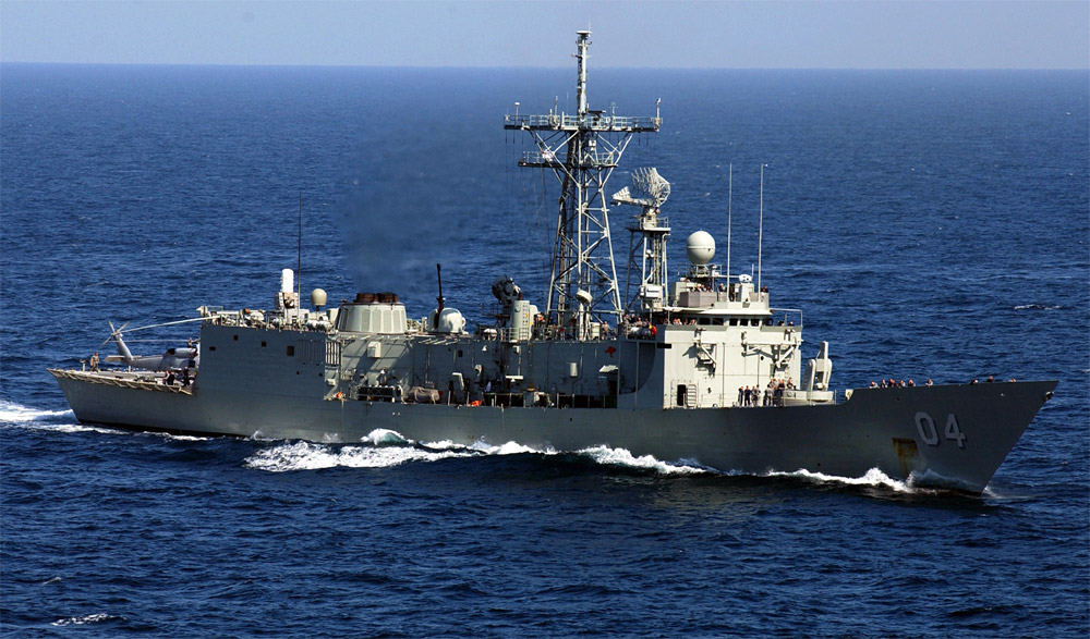 Persian Gulf (Mar. 15, 2005) — The Royal Australian Navy frigate HMAS Darwin (FFG 04) underway in the waters of the Persian Gulf alongside the Nimitz-class aircraft carrier USS Harry S. Truman (CVN 75). Darwin is a long-range escort with roles including area air defense, anti-submarine warfare, surveillance, reconnaissance and interdiction. She can counter simultaneous threats from the air, surface and sub-surface. The Truman Carrier Strike Group is on a regularly scheduled deployment in support of the Global War on Terrorism.